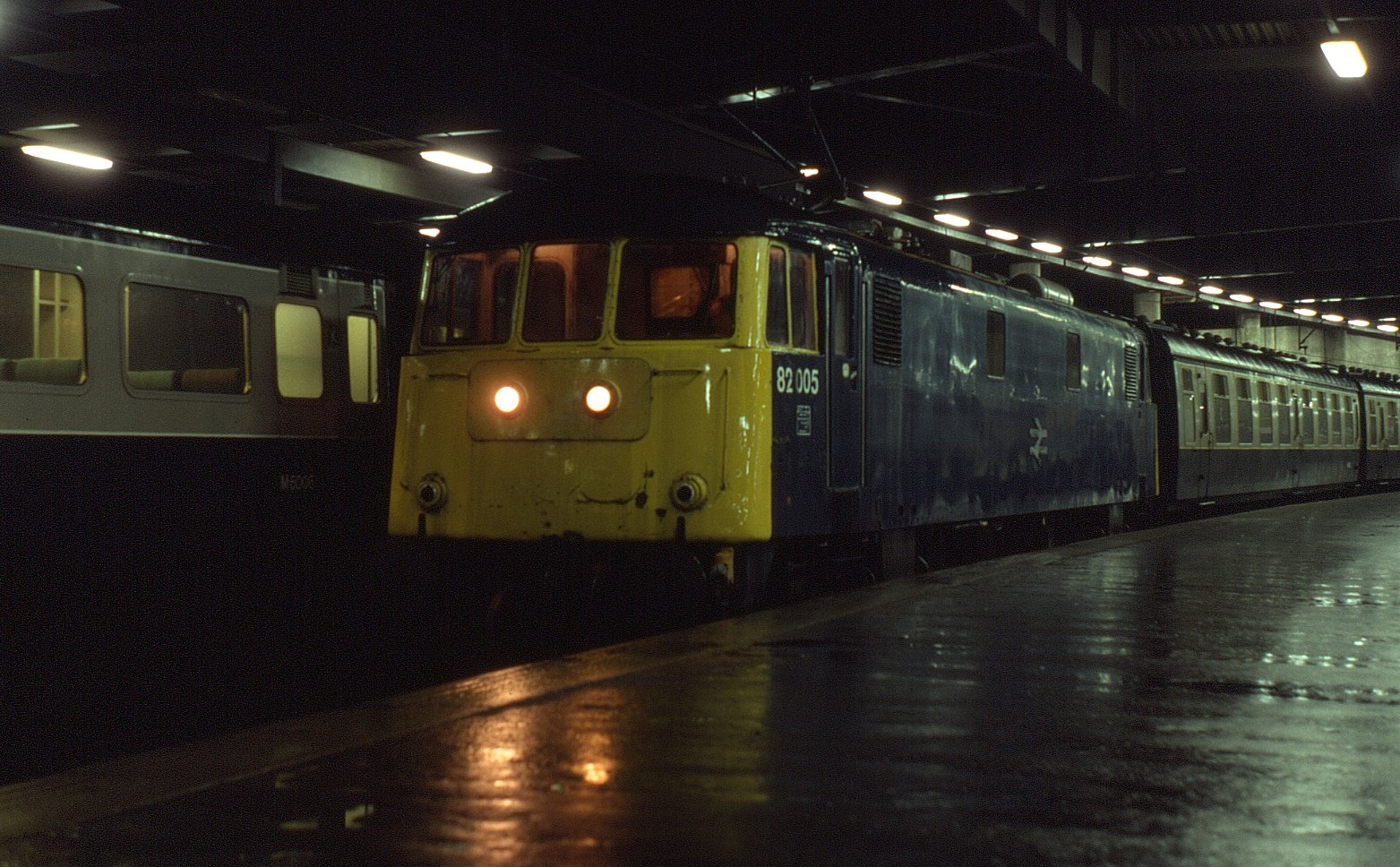 Some of the earlier AC electrics (classes 81 to 85) saw their last few years of service working ECS trains between London Euston and Willesden. Taken on a wet 25 January 1985, 82005 is seen on such duty at London Euston station.